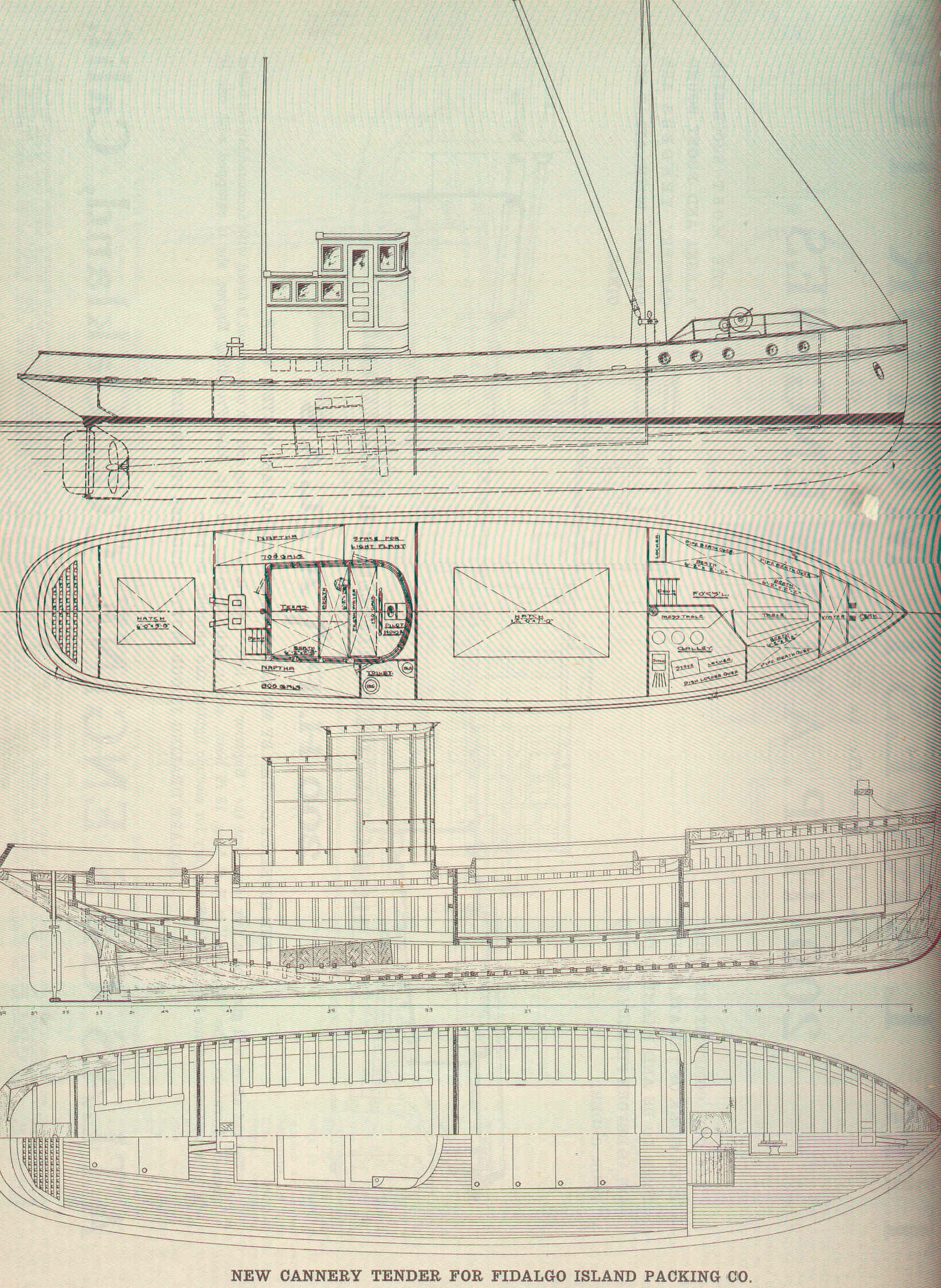 New Cannery Tender for Fidalgo Island Packing Co . Subject: Fishing boats Tag: Vessels